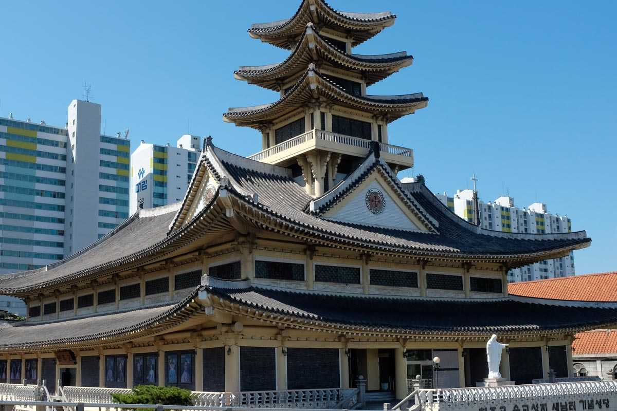 The Saenamteo Martyr's Shrine, Seoul